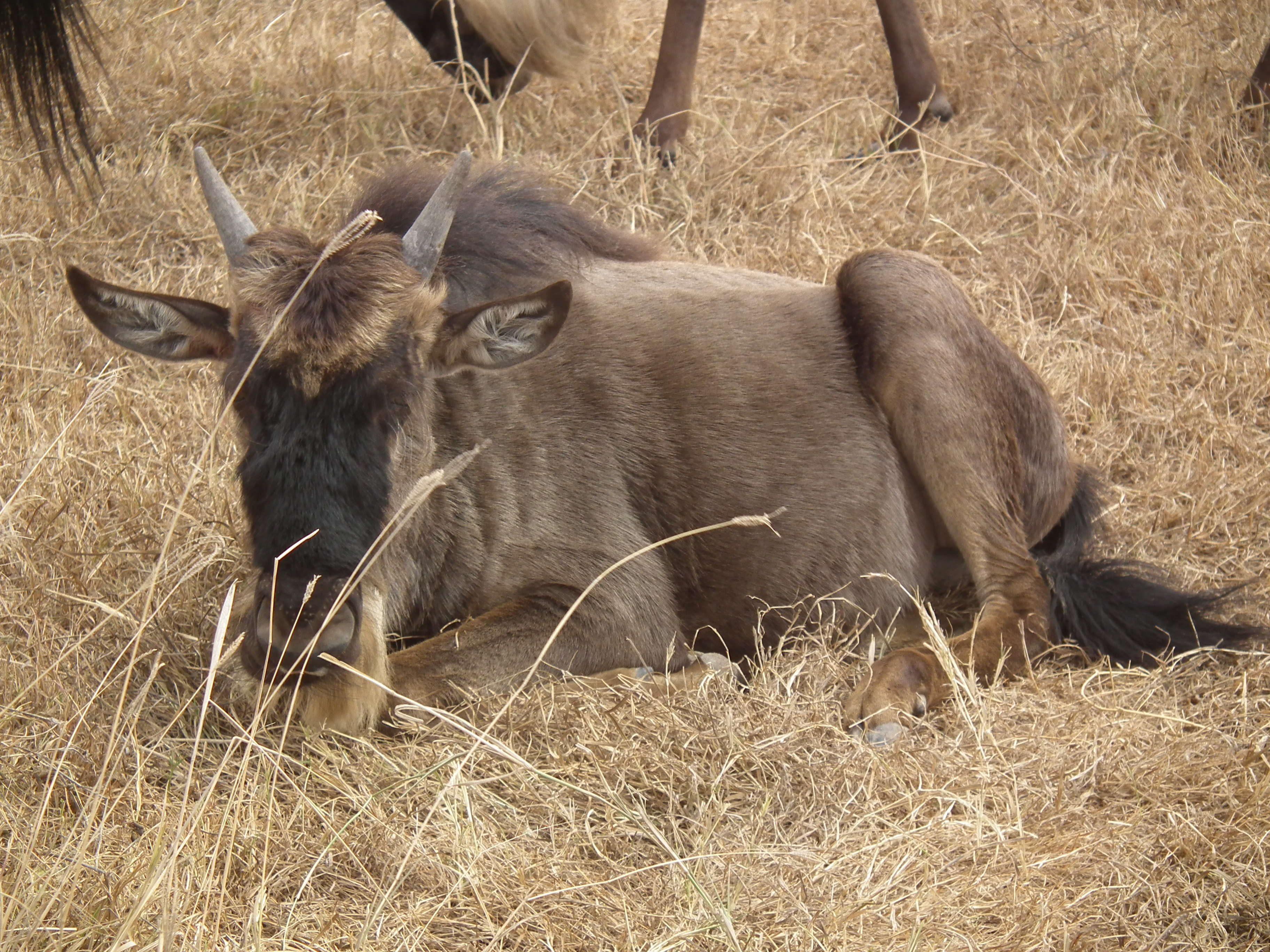 Wildebeest Connochaetes taurinus, picture taken in Tanzania